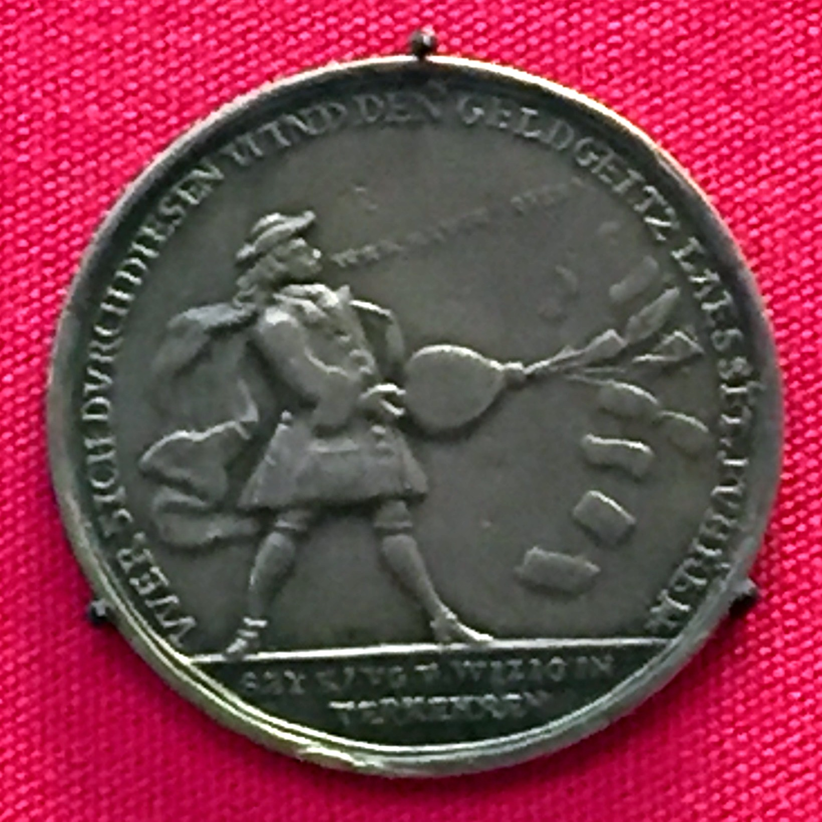 Satiric German medal minted in 1720 that depicts John Law blowing banknotes, an allegory of the financial bubble of the Mississippi Company that burst that year. British Museum, London, UK.